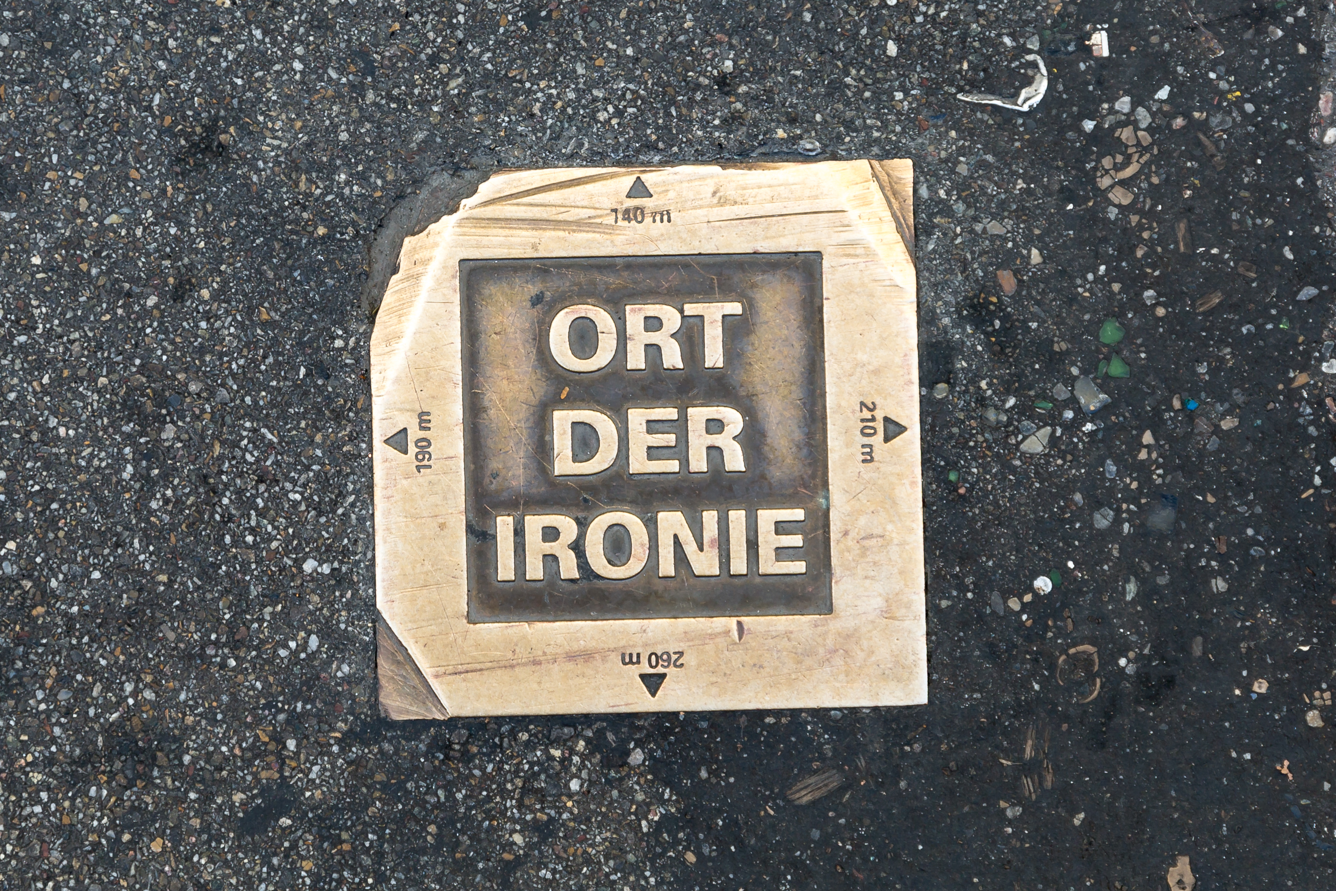 St. Gallen